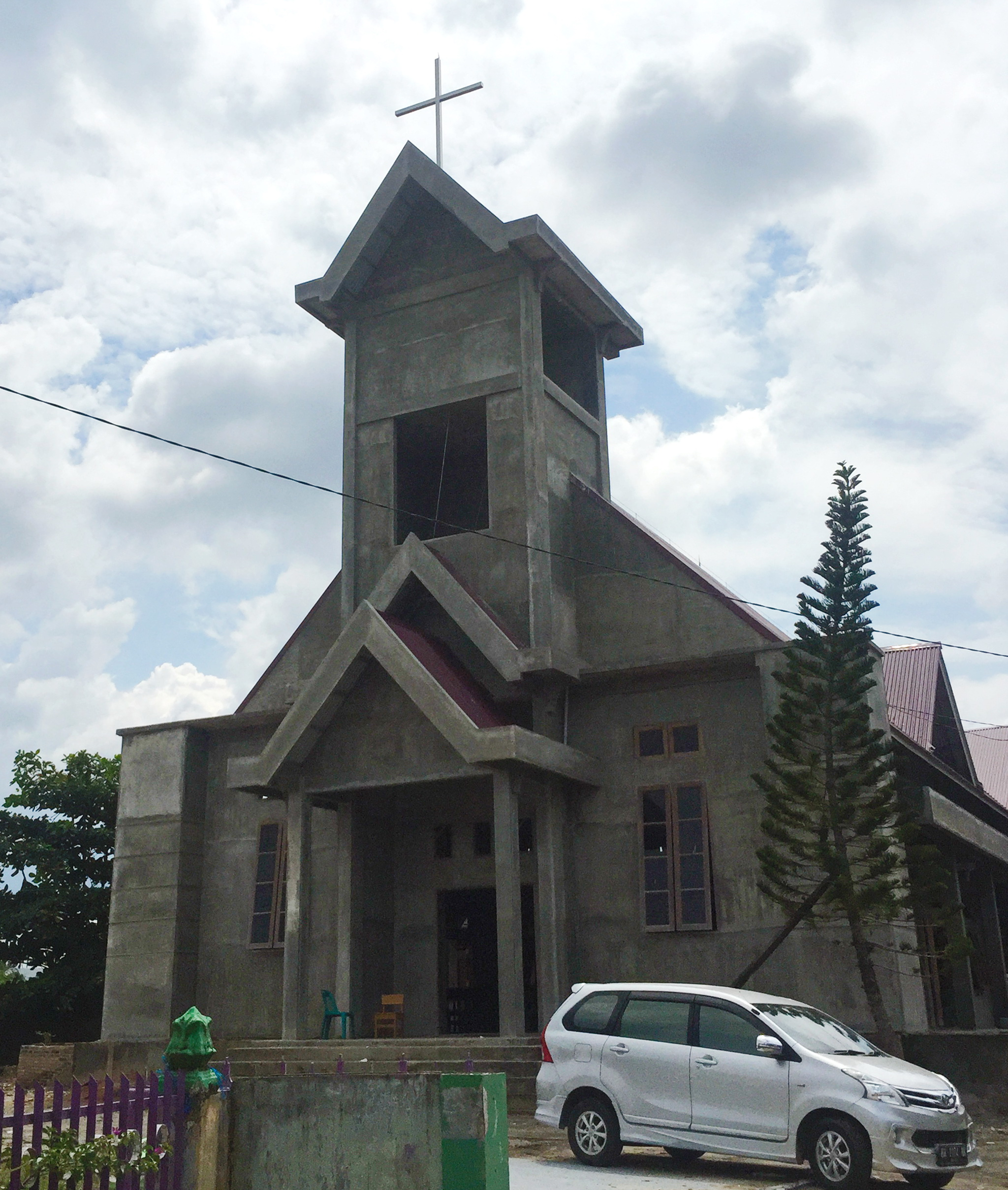 GKPS Bandar Sakti, Church in Bandar Sakti, Bajenis, Tebing Tinggi